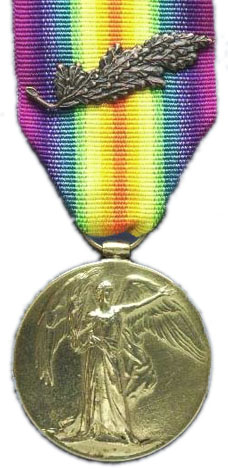 Victory Medal 1914-18 with Mention in Despatches (British) Oak Leaf Cluster I, the photographer, Ian Mackenzie, am the copyright holder. Uploaded by me with Creative Commons Attribution.